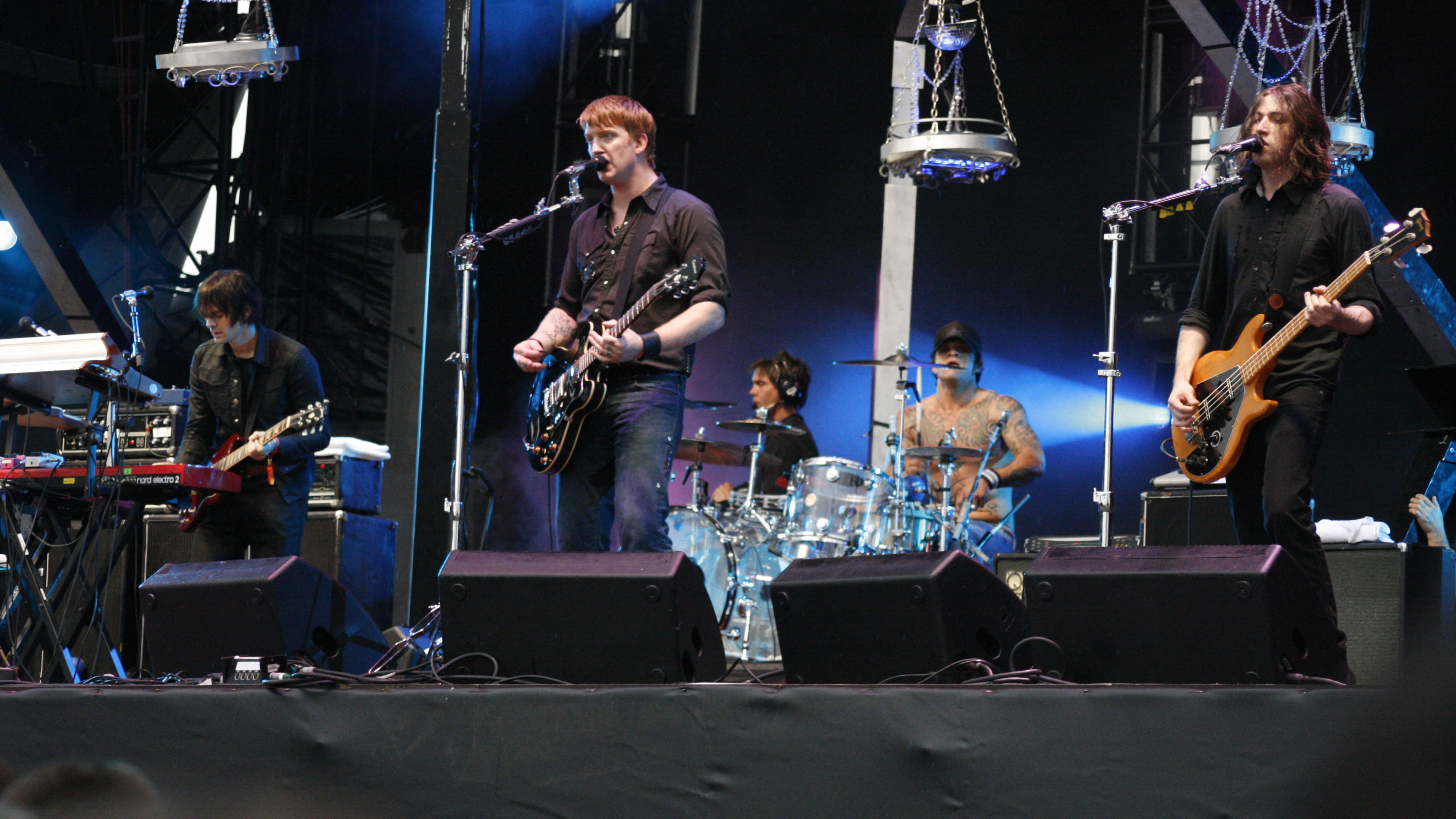 Queens of the Stone Age on Wireless Festival, 2007